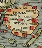 Fyn - part of Olaus Magnus Carta marina.